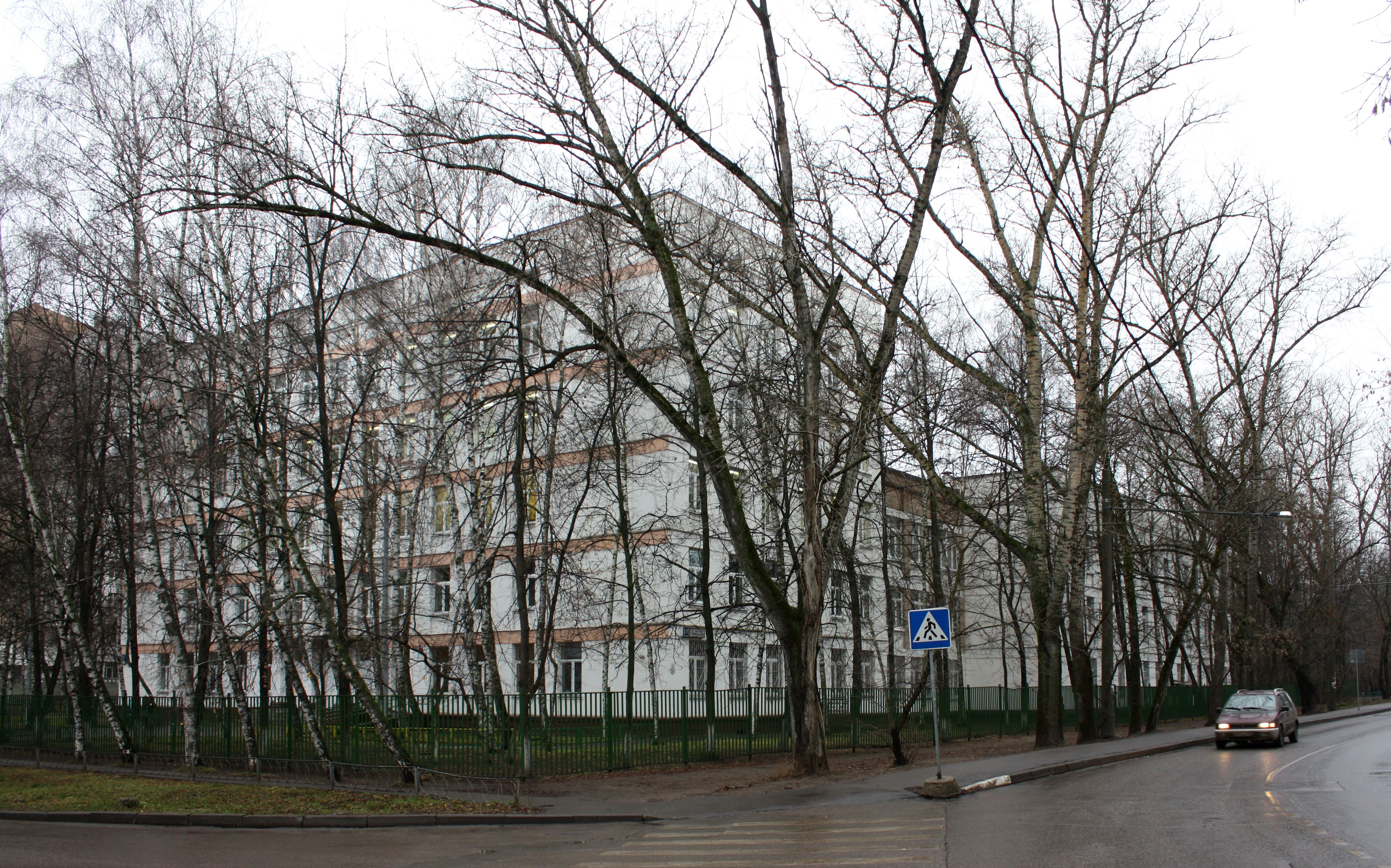 Moscow, Gamaleya street. School No 1210 (house 17 building 1). Firstly - No 34